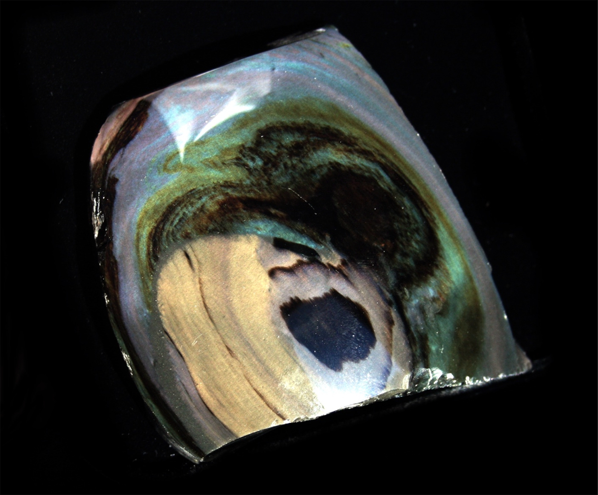 Rainbow Obsidian